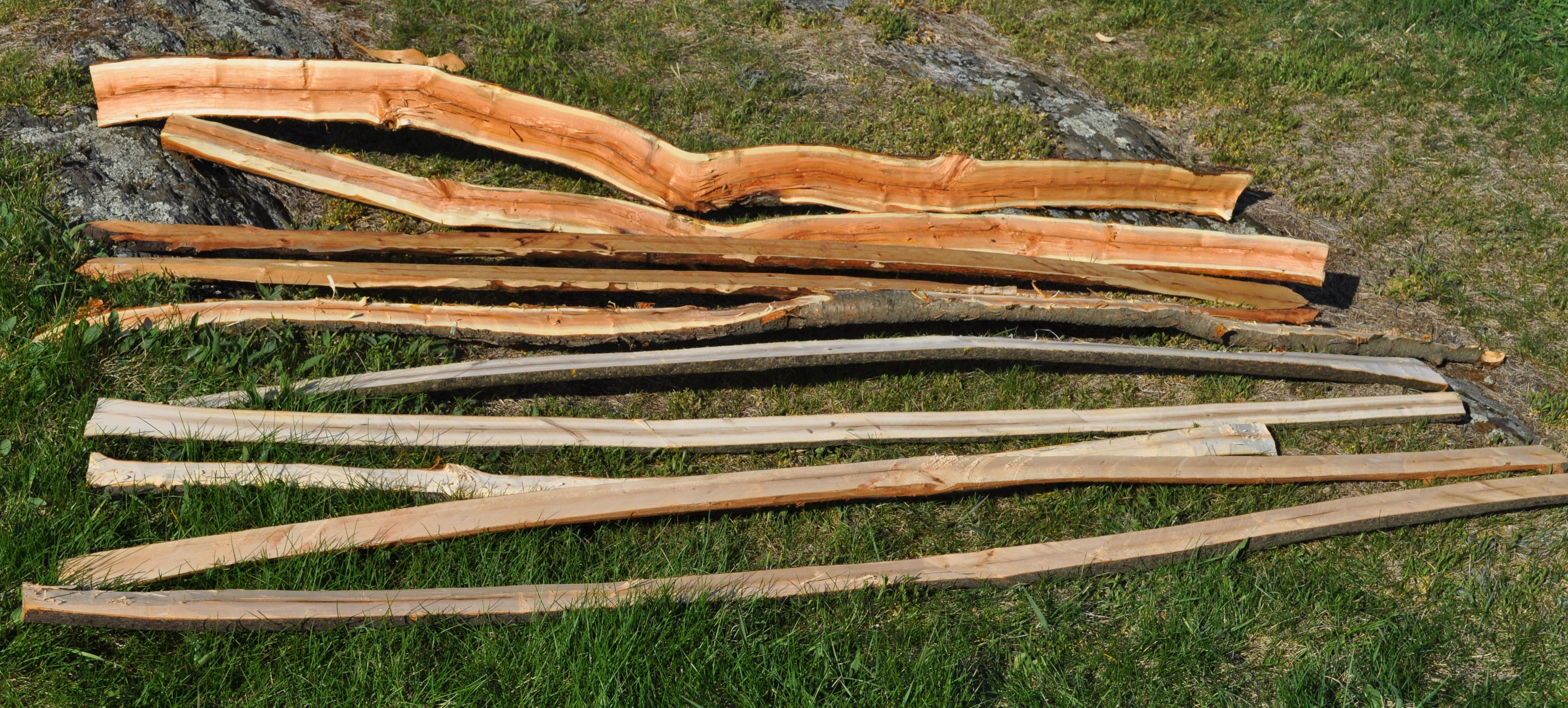 Several bow staves of chokecherry and common buckthorn.